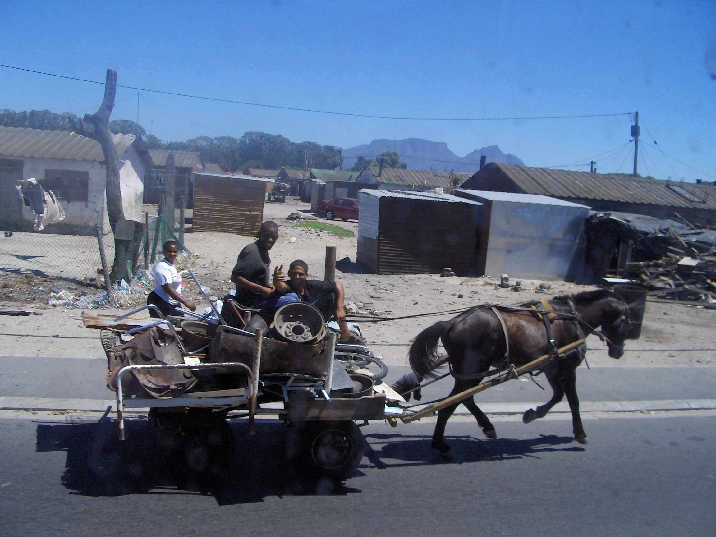 South Africa, Cape Town